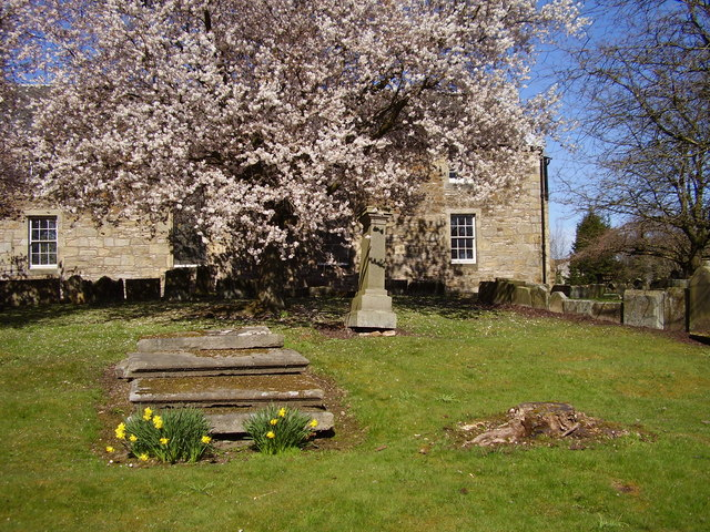 Churchyard, Cumbernauld Old Parish Church The original foundation was late 12th-early 13th century; the present church building was erected in 1650, and has had several later additions such as the North Aisle, additional storey, galleries with exterior stairs and tall south windows. The earliest inscription in the graveyard is 1625.